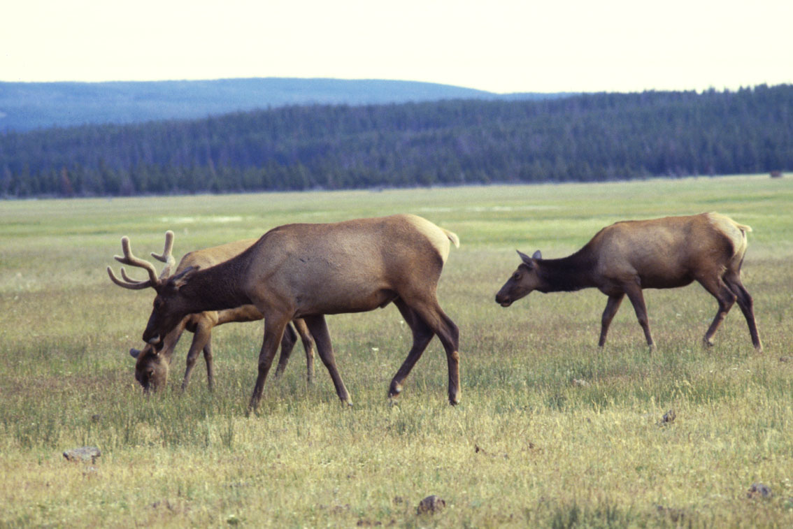 Elk